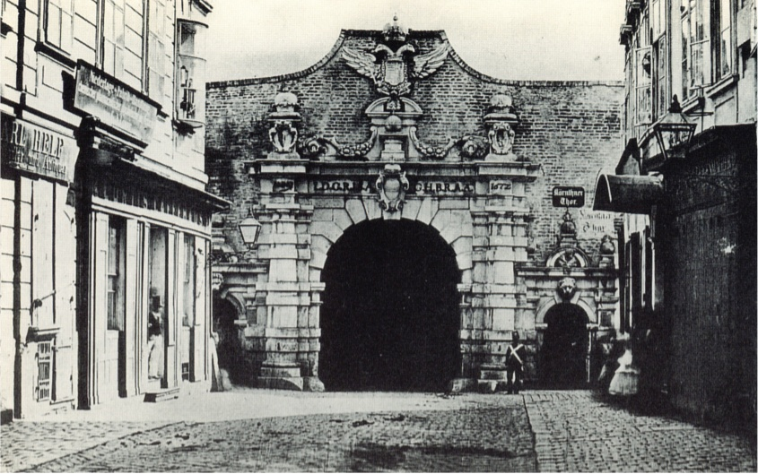 The old Kärntnertor (carinthian portal) was part of vienna's city wall; view from inside the city